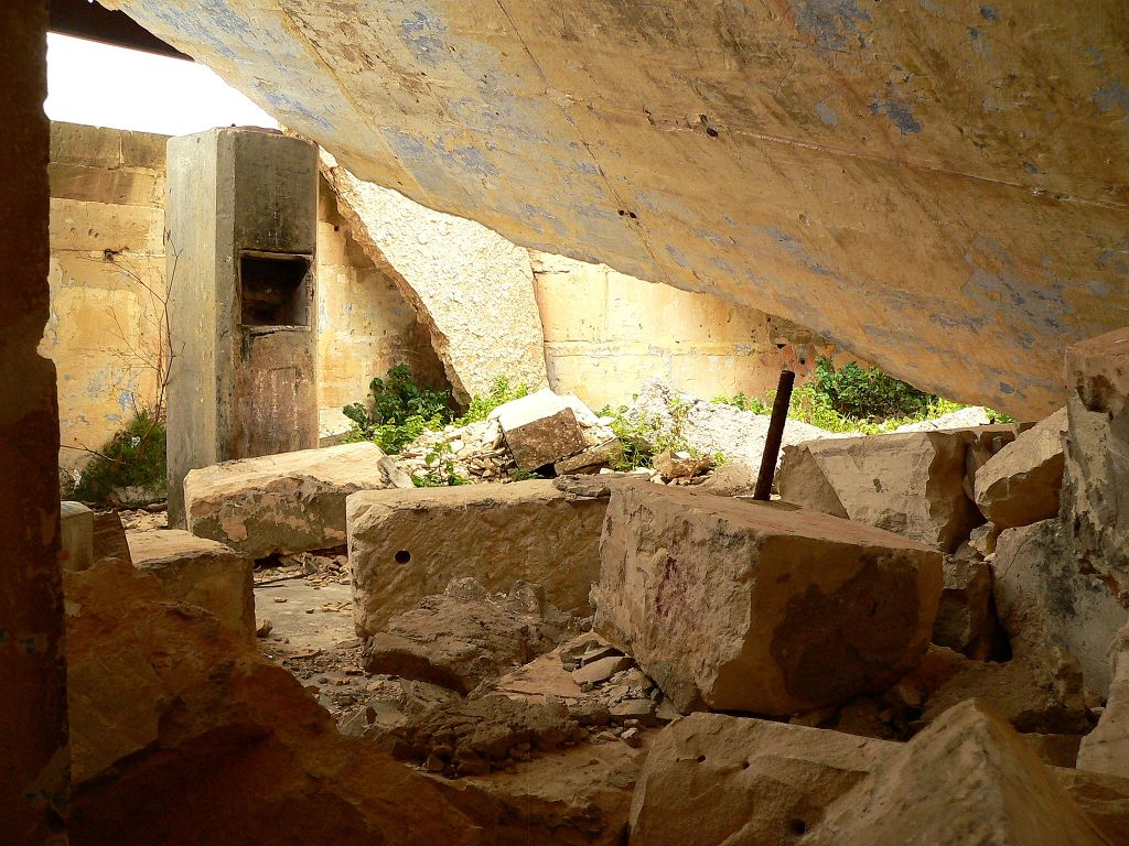 The Fort Campbell in Malta is a ruin. It is located in the north of Malta, near the town of Mellieha. You can use this images for free. But a link to the - I would be happy :)